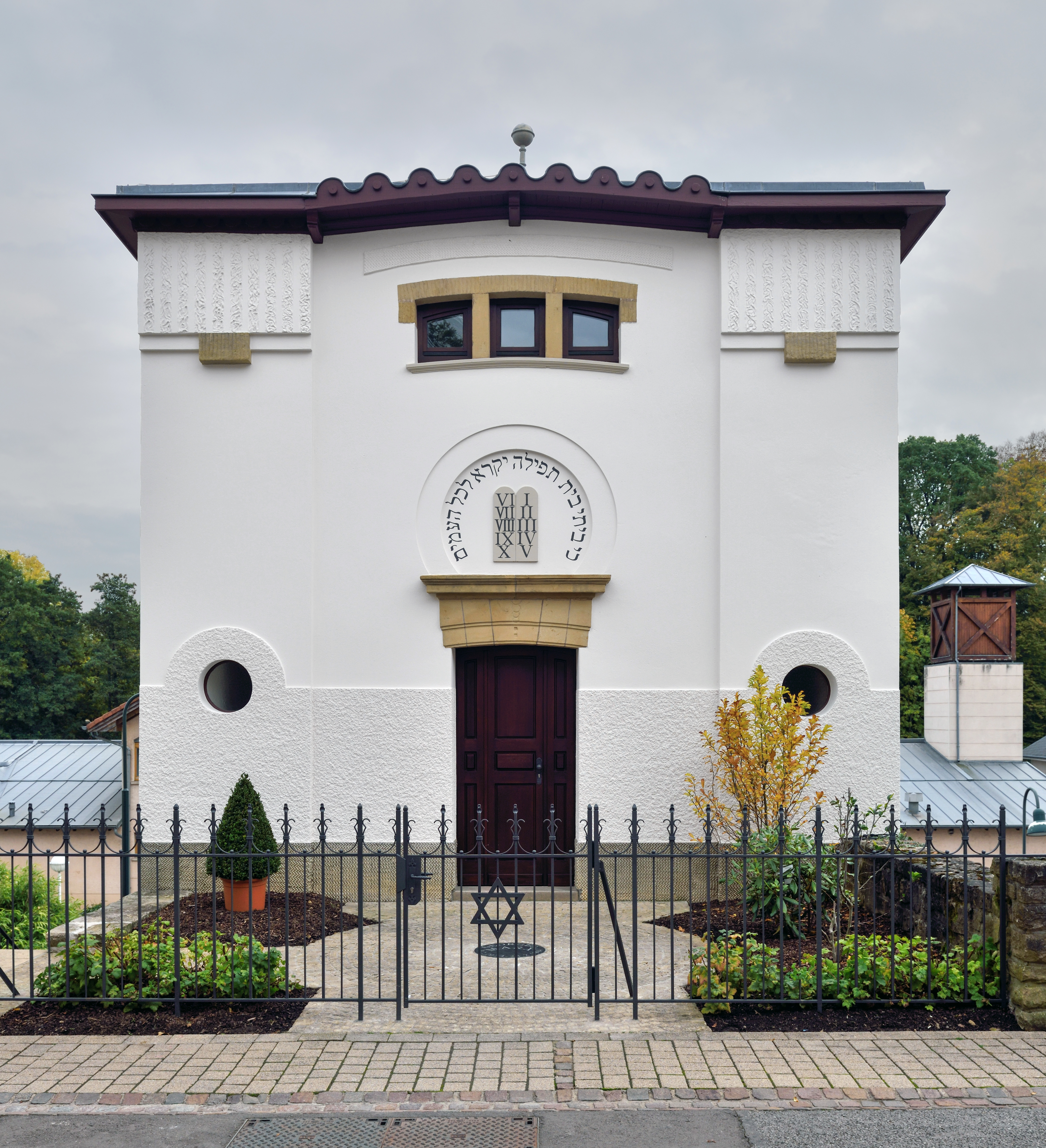 The former synagogue in Mondorf-les-Bains after renovation in 2015. Location: 25, rue du Moulin.